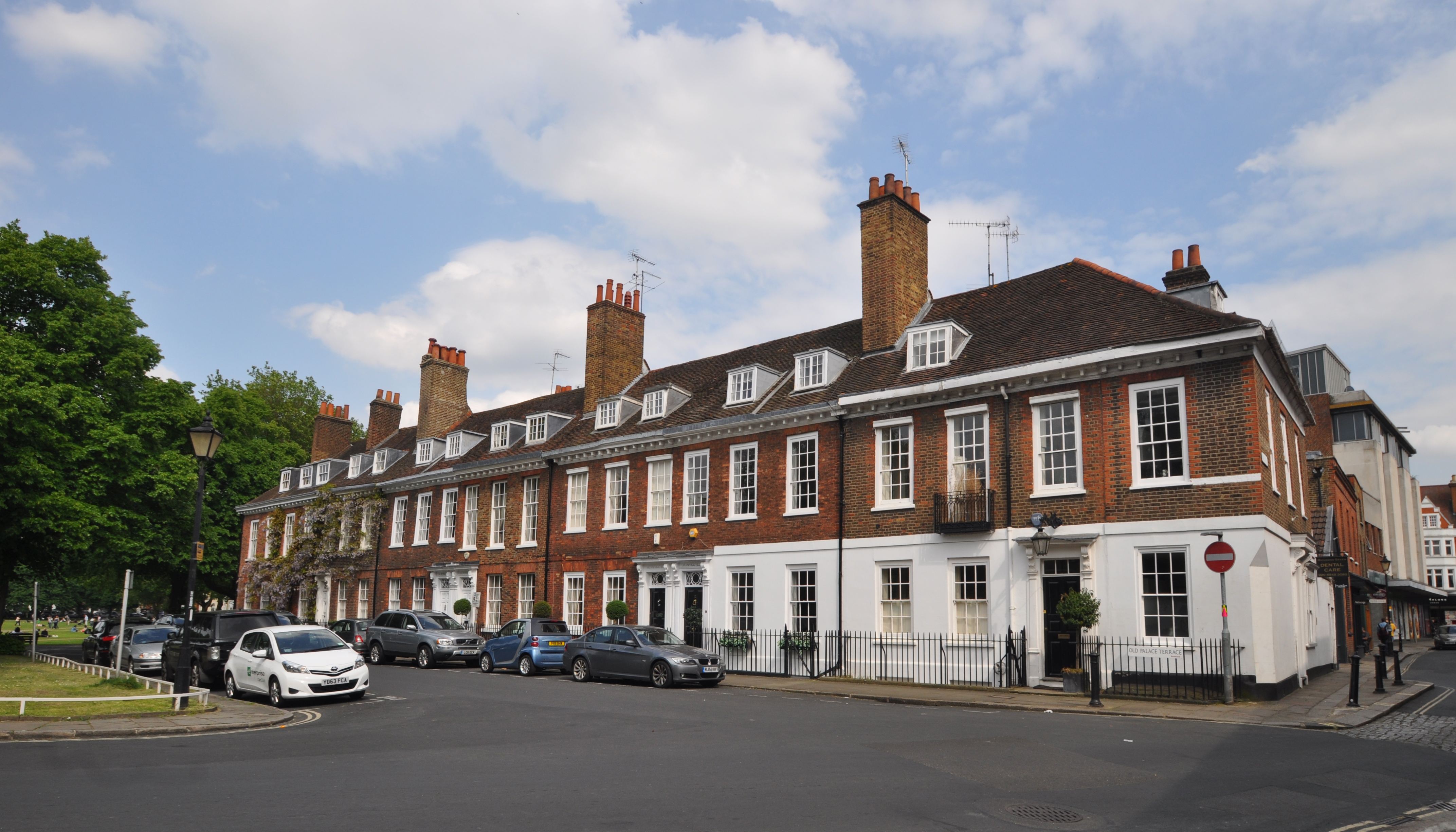 1, Richmond Green Wikidata has entry Q17553349 with data related to this item. 1-6 Old Palace Terrace